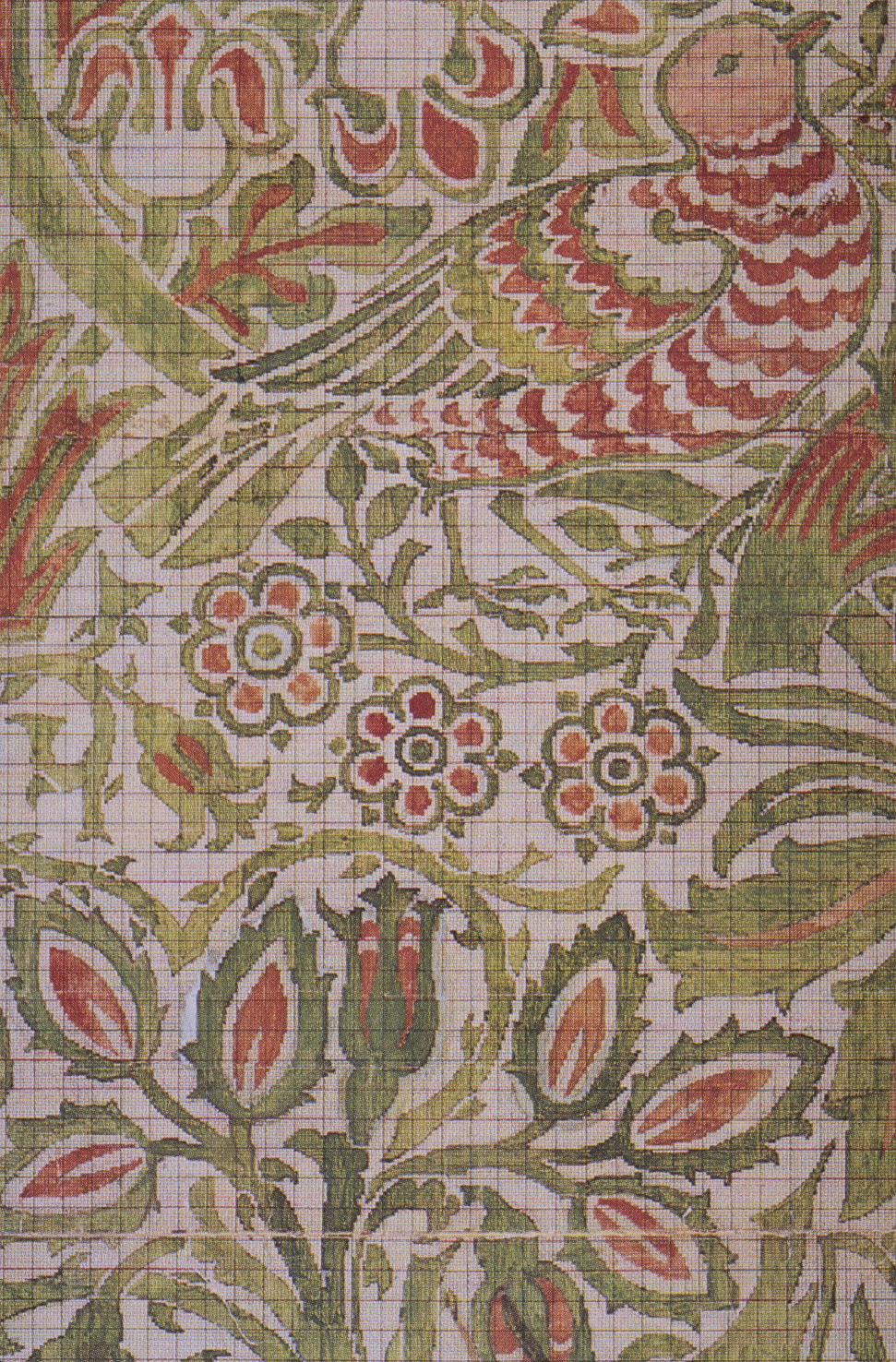 Detail of "point-paper" for jacquard weaving of Dove and Rose wool and silk double-cloth based on William Morris's design of 1879. (Identification and notes from Linda Parry: William Morris Textiles, New York, Viking Press, 1983, ISBN 0-670-77074-4, p. 66)